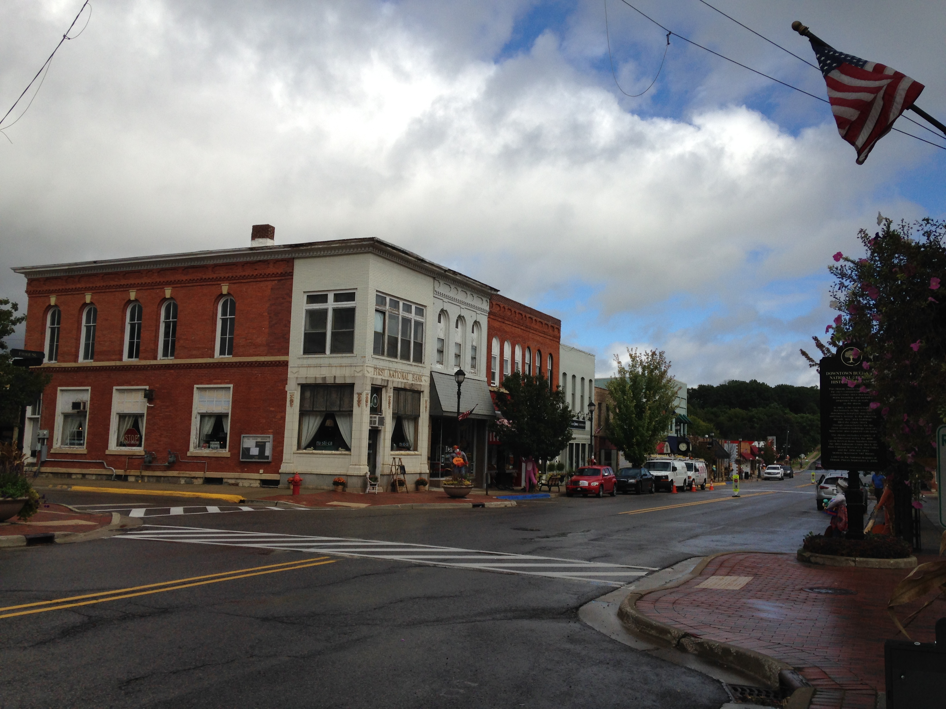 Buchanan Downtown Historic District, Front Street, between 117 West and 256 East; parts of Main Street, between 108 and 210-212; and 114 N. Oak Street Buchanan